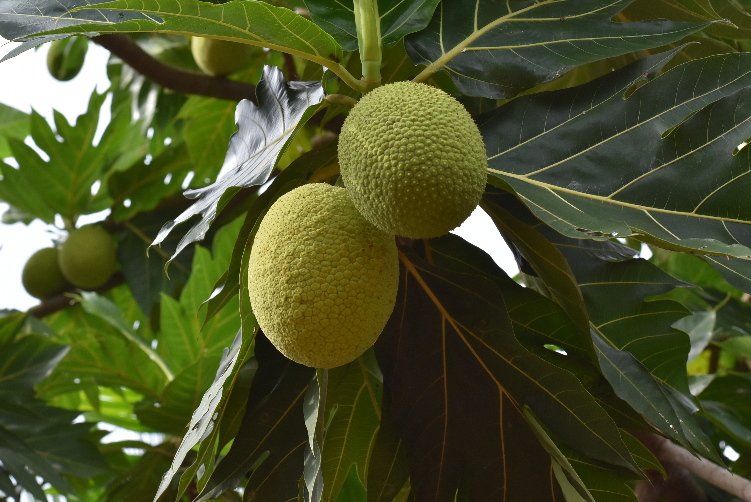 It is used as a dish in Dakshina Kannada Region